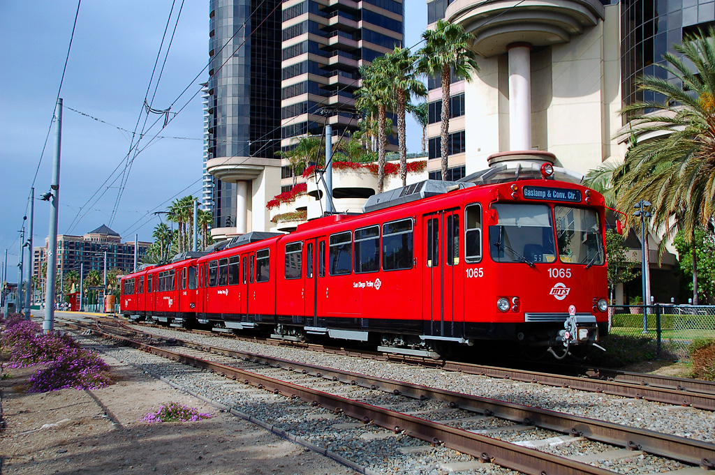 San Diego Trolley viewed in downtown San Diego, California in November 2007.